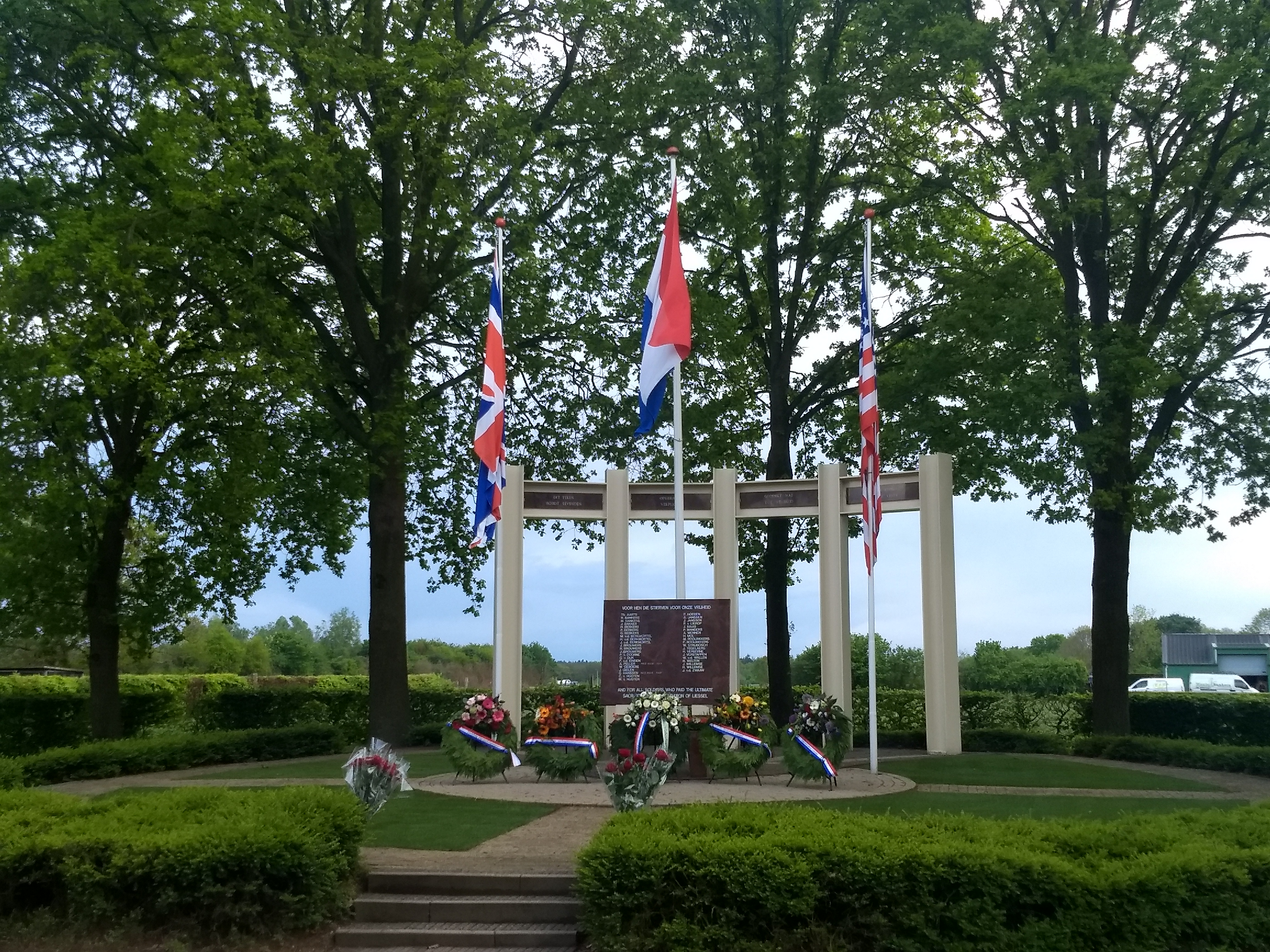 The memorial monument in the small Dutch town of Liessel